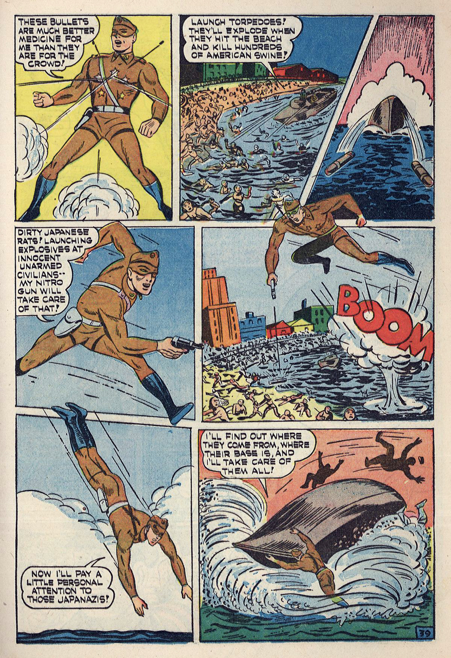 Four Favorites #8, Page 41 December, 1942